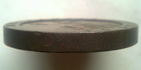 Coin edges 2 pence, Great Britain, 1797, George III. Copper, diameter 40.9 mm, thickness 5.1 mm, weight 56.47 g. Engraver Konrad Heinrich Kühler, circulation 722,000 copies.